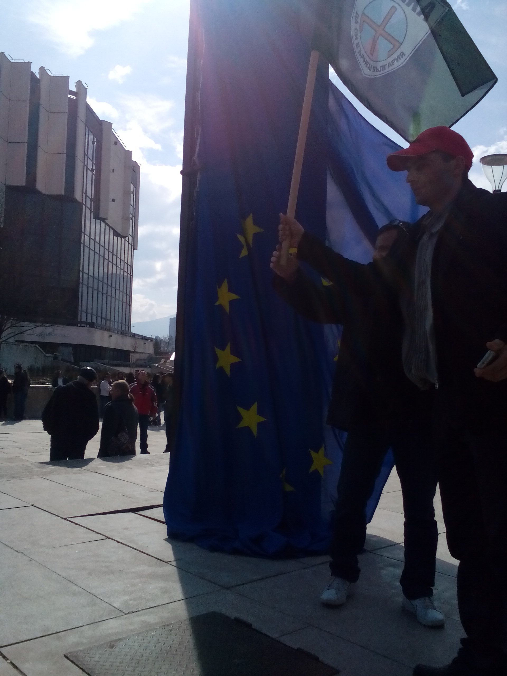 Followers of the Bulgarian political party "Ataka" tear down the flag of the European Union in the center of the capital of Bulgaria - Sofia, next to the National Palace of Culture, at the National holiday of Bulgaria - 3 March 2016, the 138 year from the liberation of the country from the Turkish yoke.